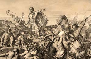 Prize cartoon by Edward Armitage of Caesar's invasions of Britain, c.1843, from the Palace of Westminster archives.